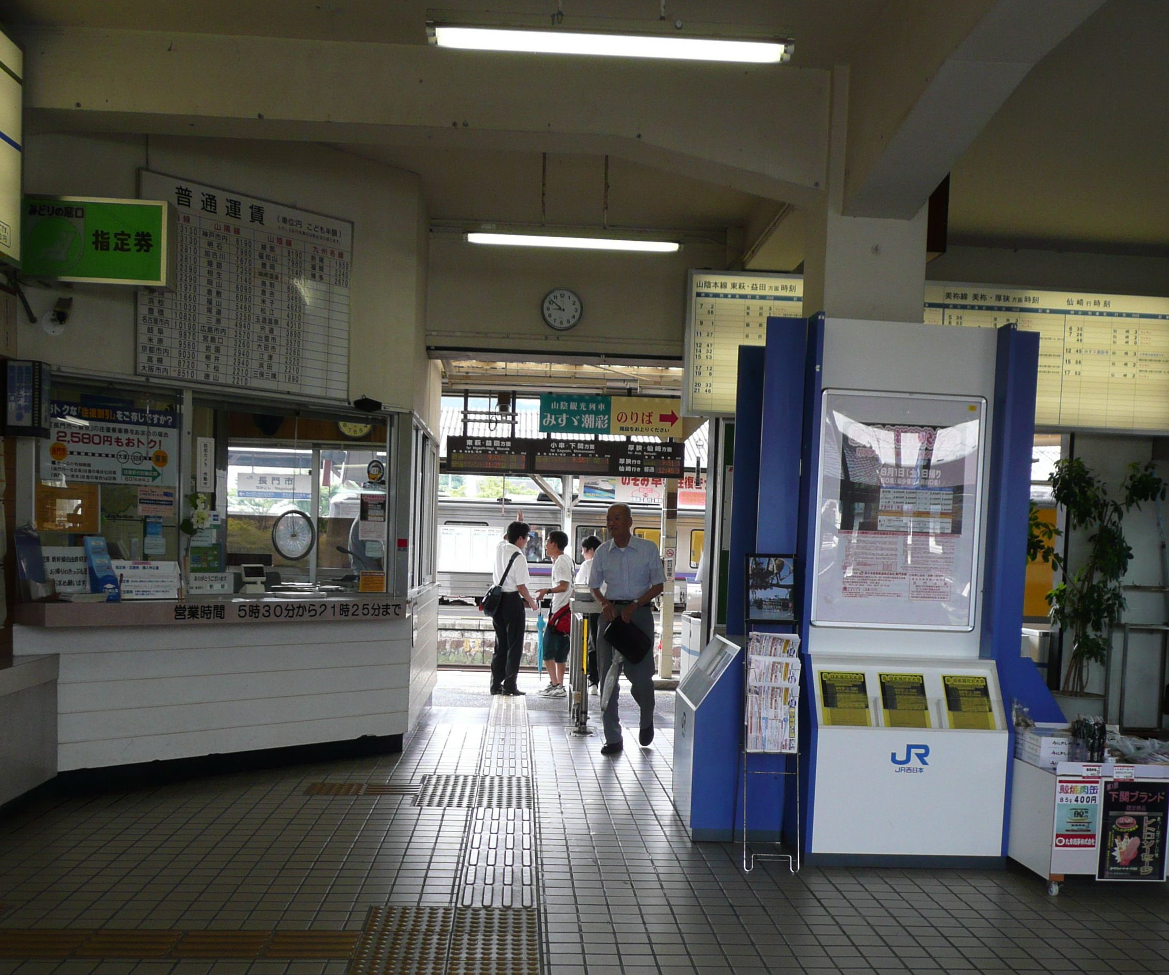 長門市駅の改札口